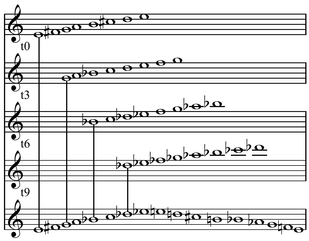 Octatonic scale on E (bottom), and symmetrical rotations by minor third (t3) of the Dorian mode on E, G, B♭, and D♭, (top three) from that scale.(Taruskin, Richard (2000). Defining Russia Musically: Historical and Hermeneutical Essays, p.439. ISBN 9780691070650.)